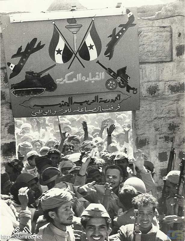 Abd al-Rahman al-Baidhani in National Guard camps